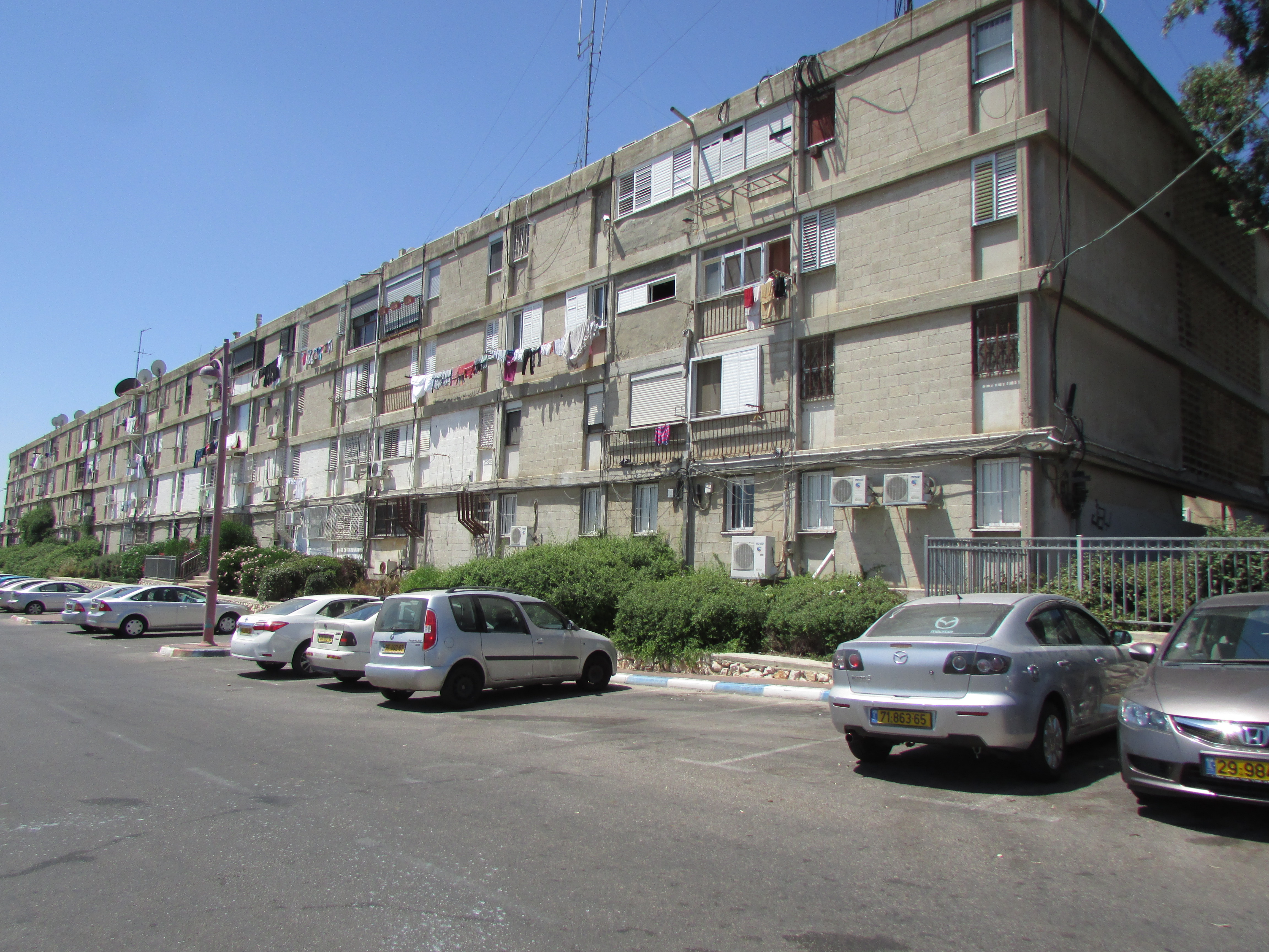 Nazareth Illit apartment bulilding